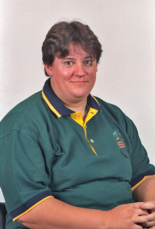 Deahnne McIntyre 2000 Australian Paralympic Team media guide portrait